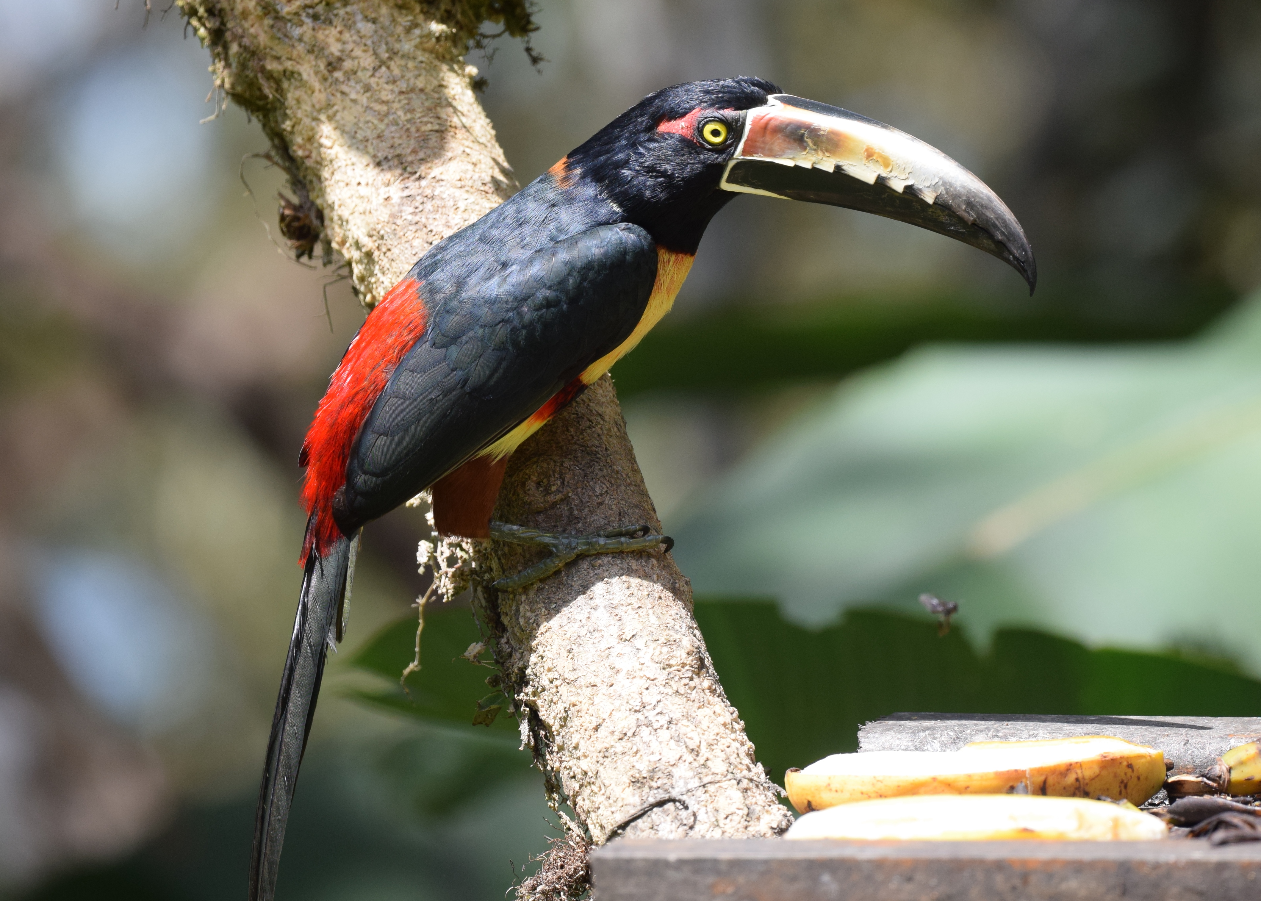 Costa Rica 2/14/16 Rancho Naturalista